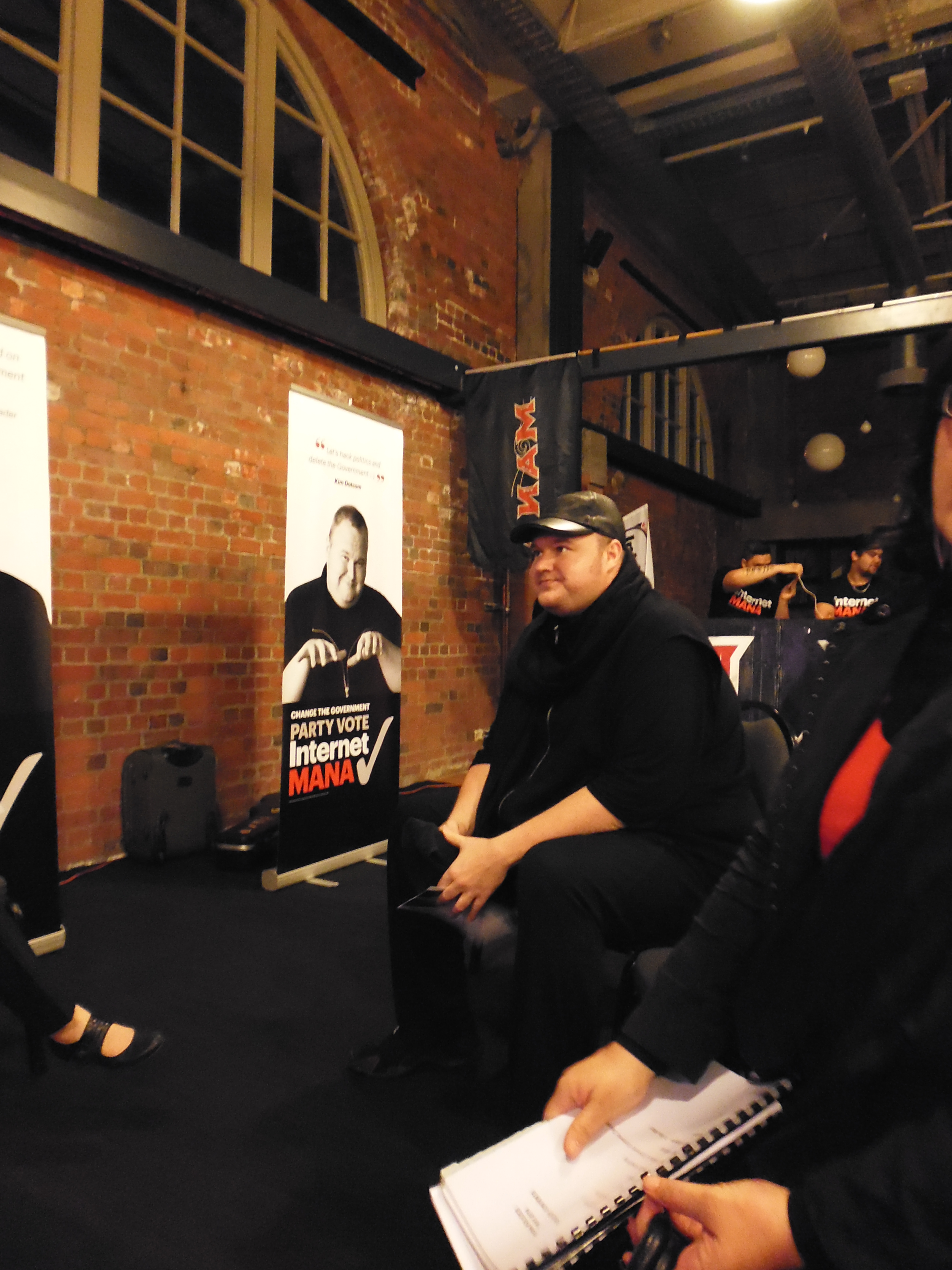 Kim Dotcom at a political rally. Photo taken at a rally held by the Internet Mana Party on 4 August 2014. The rally was part of a nationwide tour.